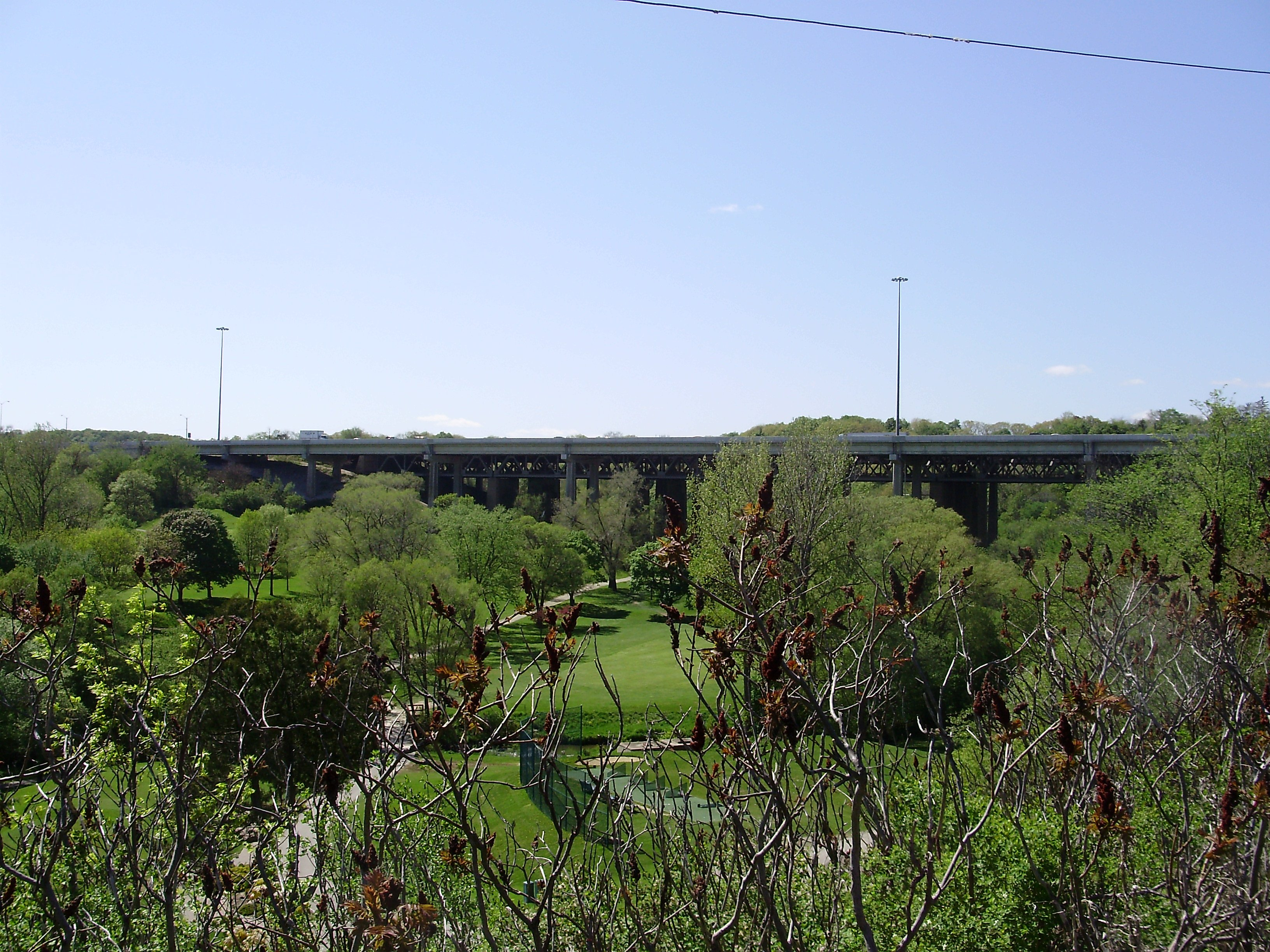 The southern span of the Hogg's Hollow Bridge, a set of bridges carrying Highway 401 over the Don River Valley, photographed from the west side of Yonge Street in North York, Ontario, Canada.